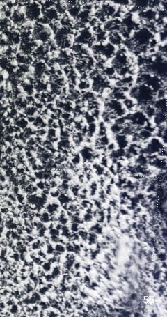 Satellite image providing detail of clouds in open cellular convection. MODIS Terra image taken southeast of South Africa